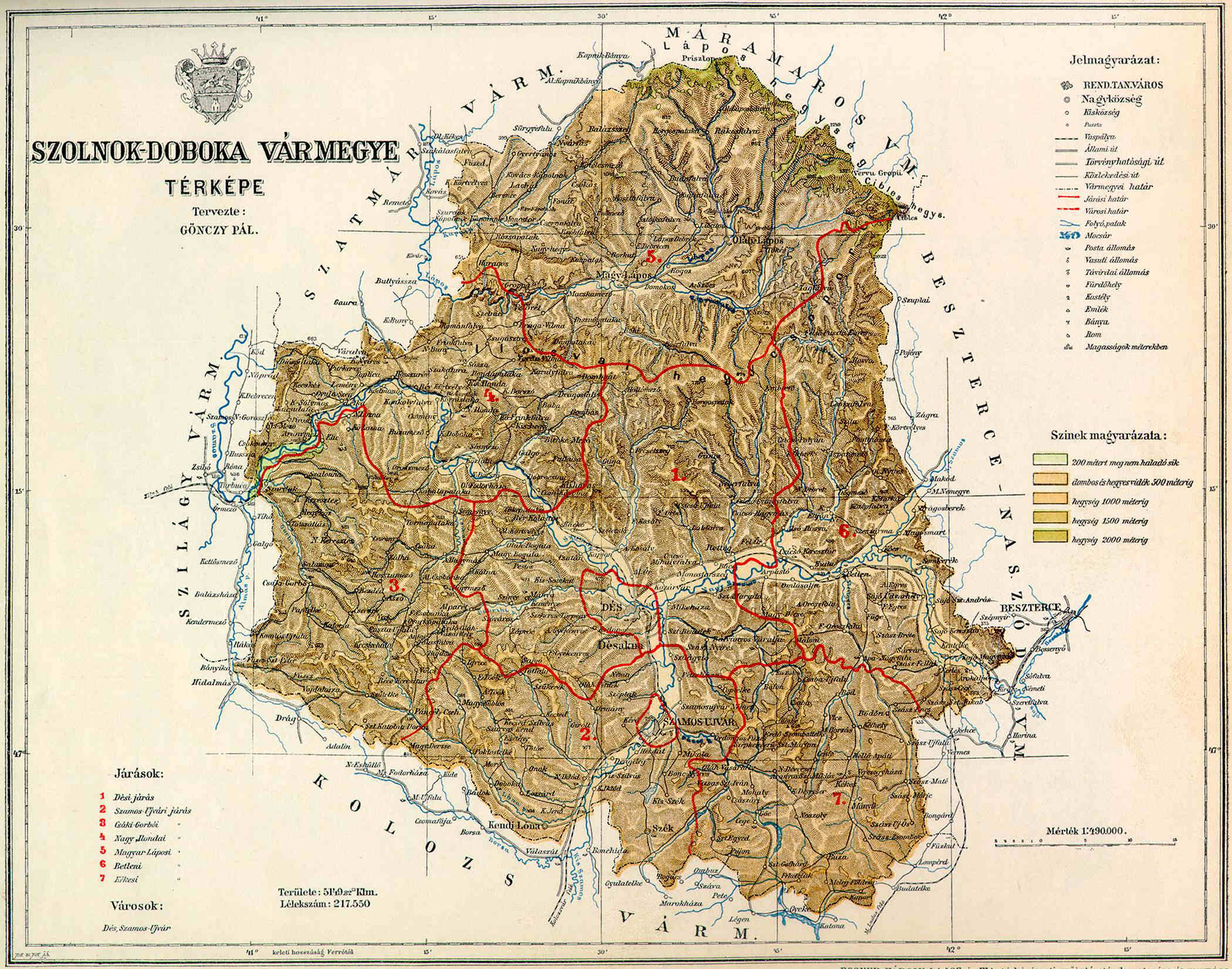 County of Szolnok-Doboka in the pre-Trianon Kingdom of Hungary. Komitat Szolnok-Doboka w Królestwie Węgier przed traktatem w Trianon.